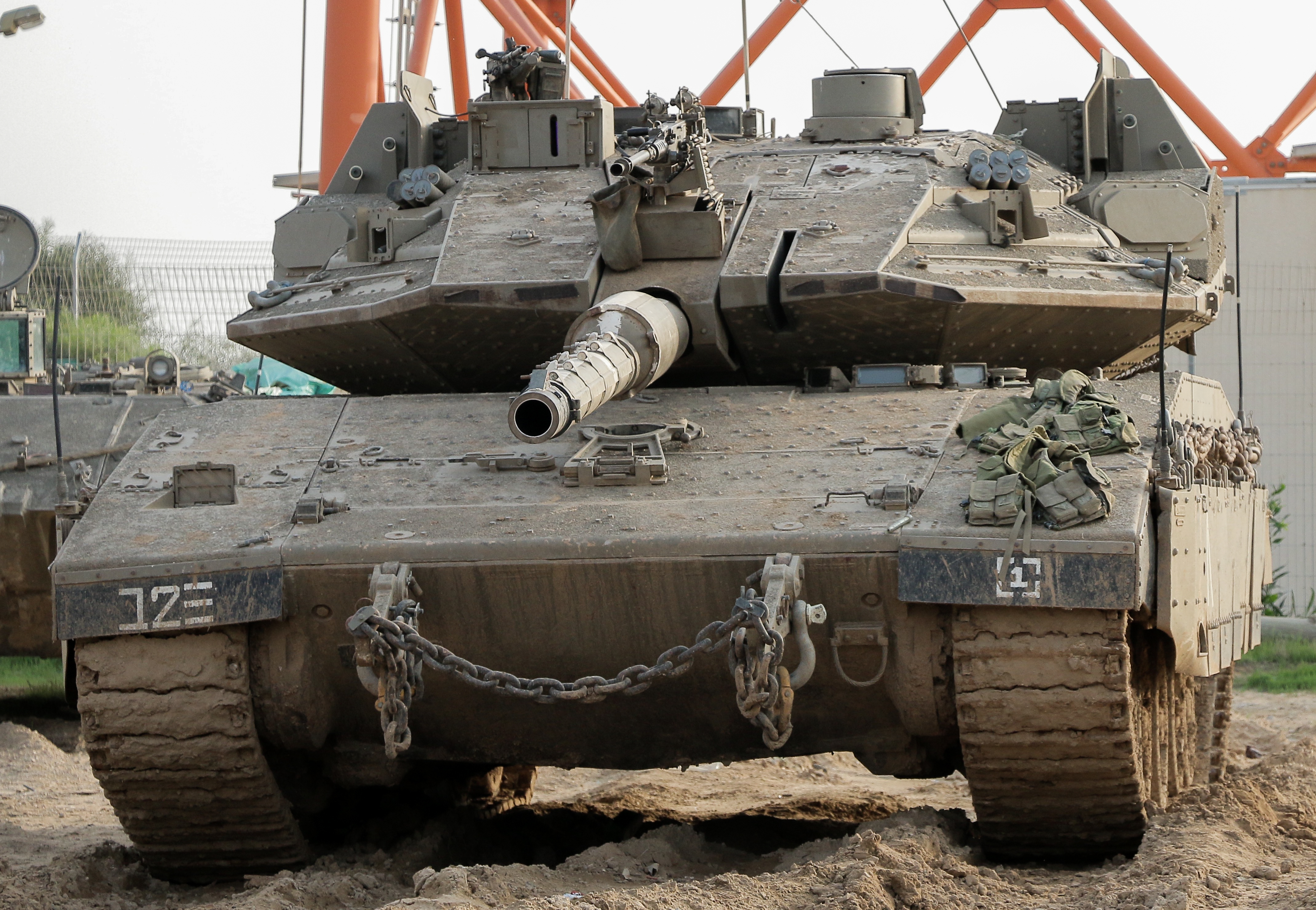 IDF Merkava Mk 4M "Windbreaker" main battle tank